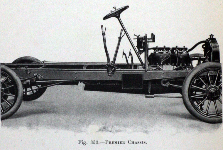 The Premier 16 HP 4 cylinder automobile was made in Birmingham for the 1907 model year only. This is obviously a pre-production Picture taken in 1906.